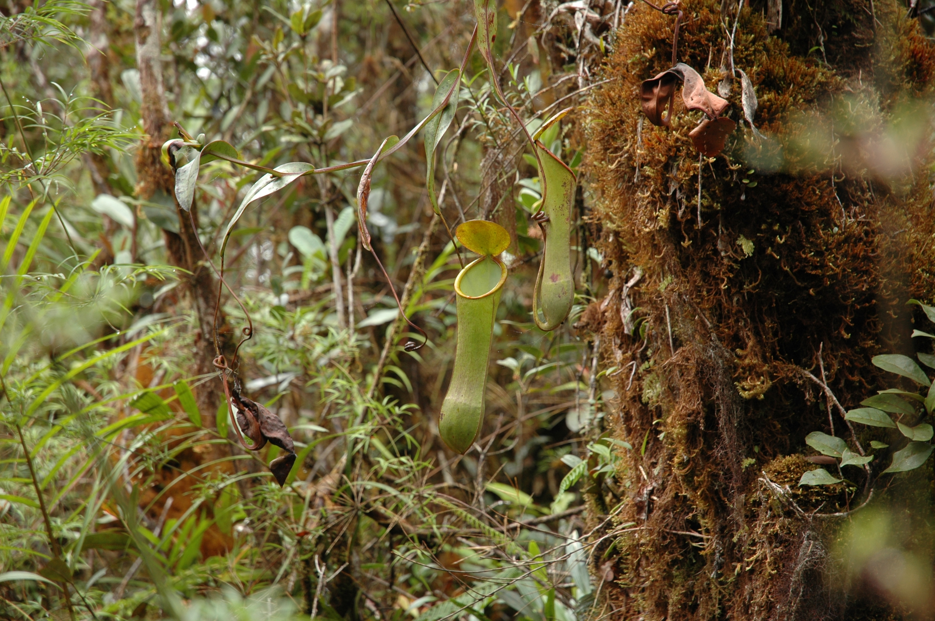 Nepenthes murudensis Gunung Murud by Jeremiah Harris